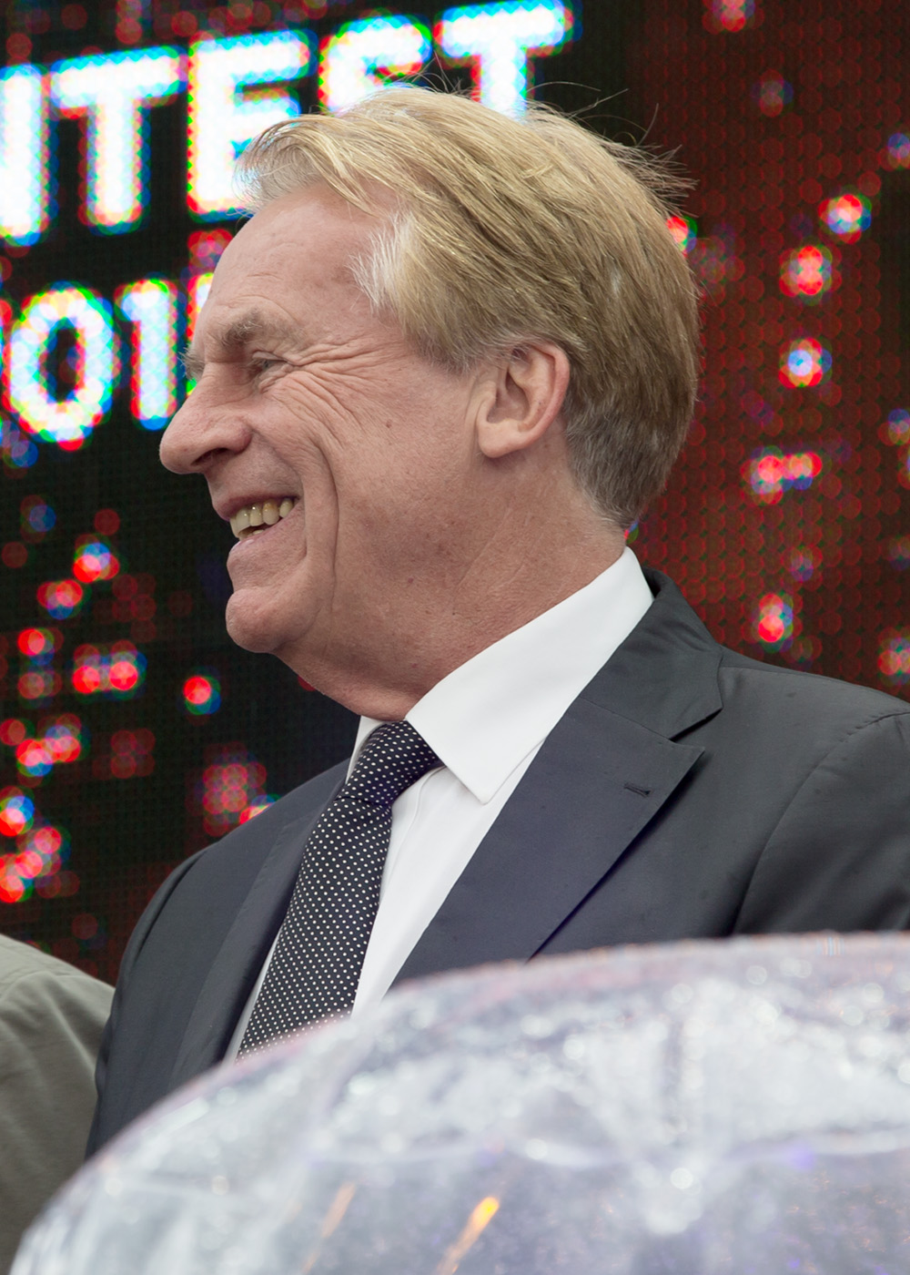 Pepe Lienhard at a tribute to Udo Jürgens in the week before Eurovision Song Contest 2015 at the Eurovision Village on Rathausplatz in Vienna, Austria.